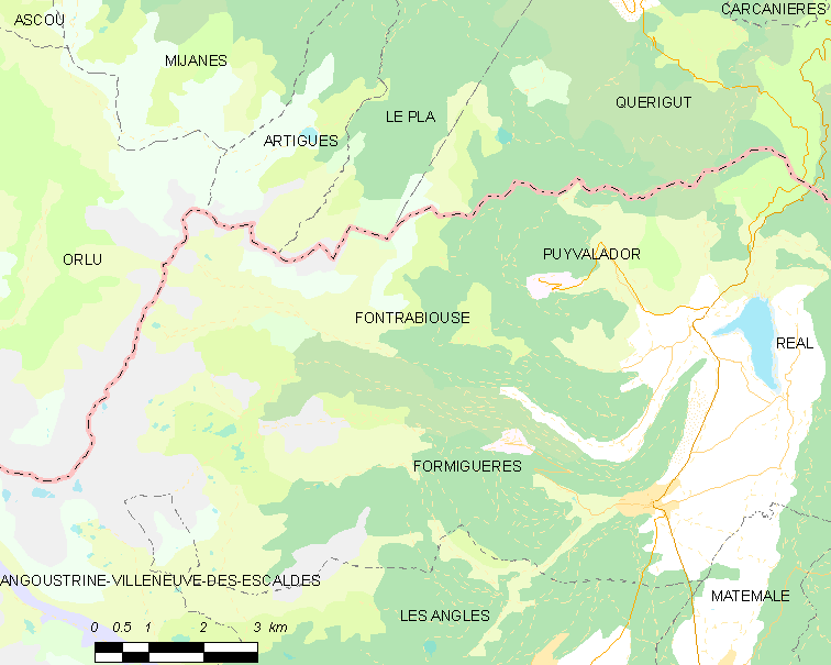 Map of French municipality